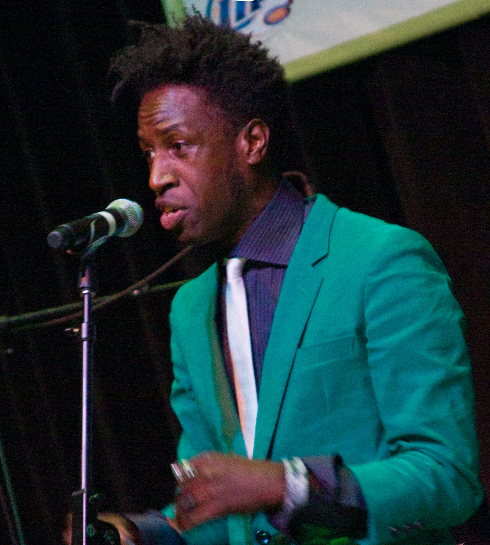 Saul Williams performing at SXSW 2008